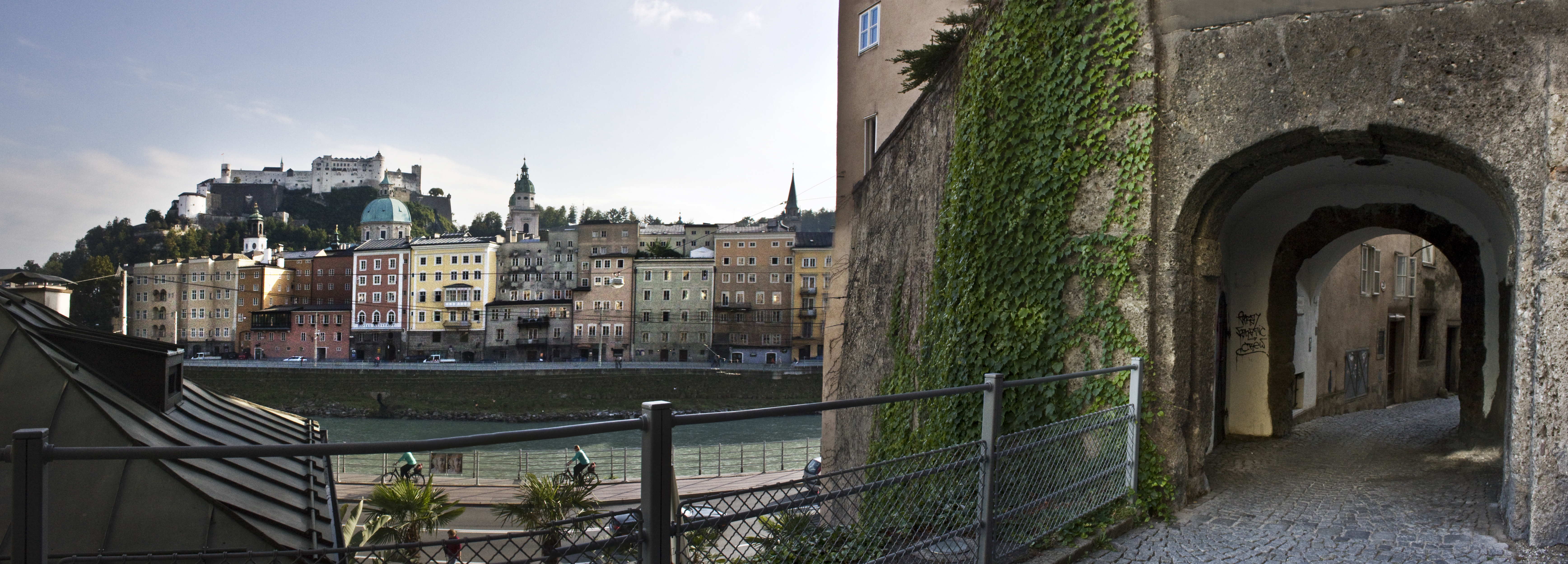 Steingasse, Salzburg, Austria. Photographed by Horst Michael Lechner